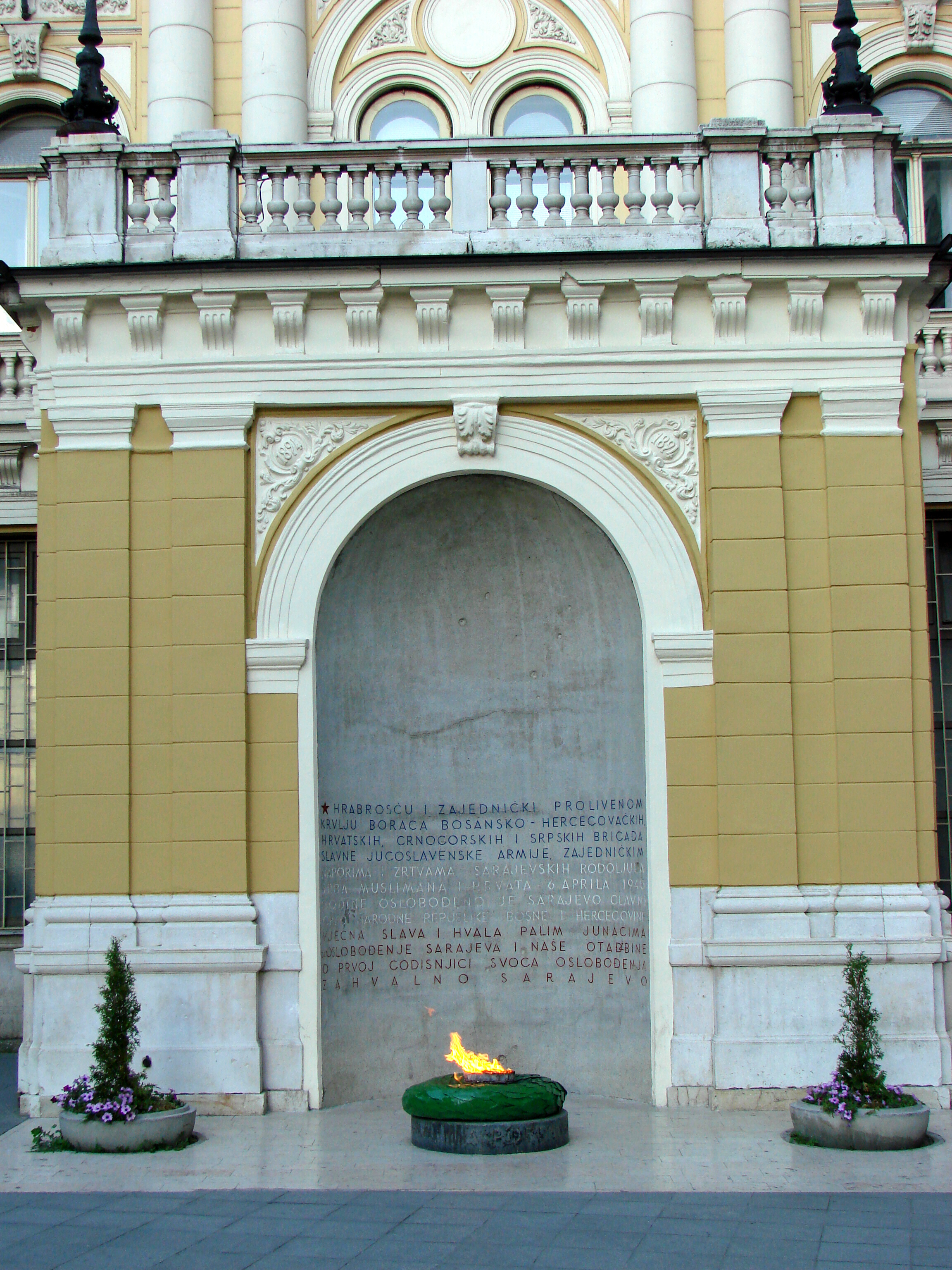 War memorial/eternal flame in Sarajevo, Bosnia and Herzegovina. July 2007.